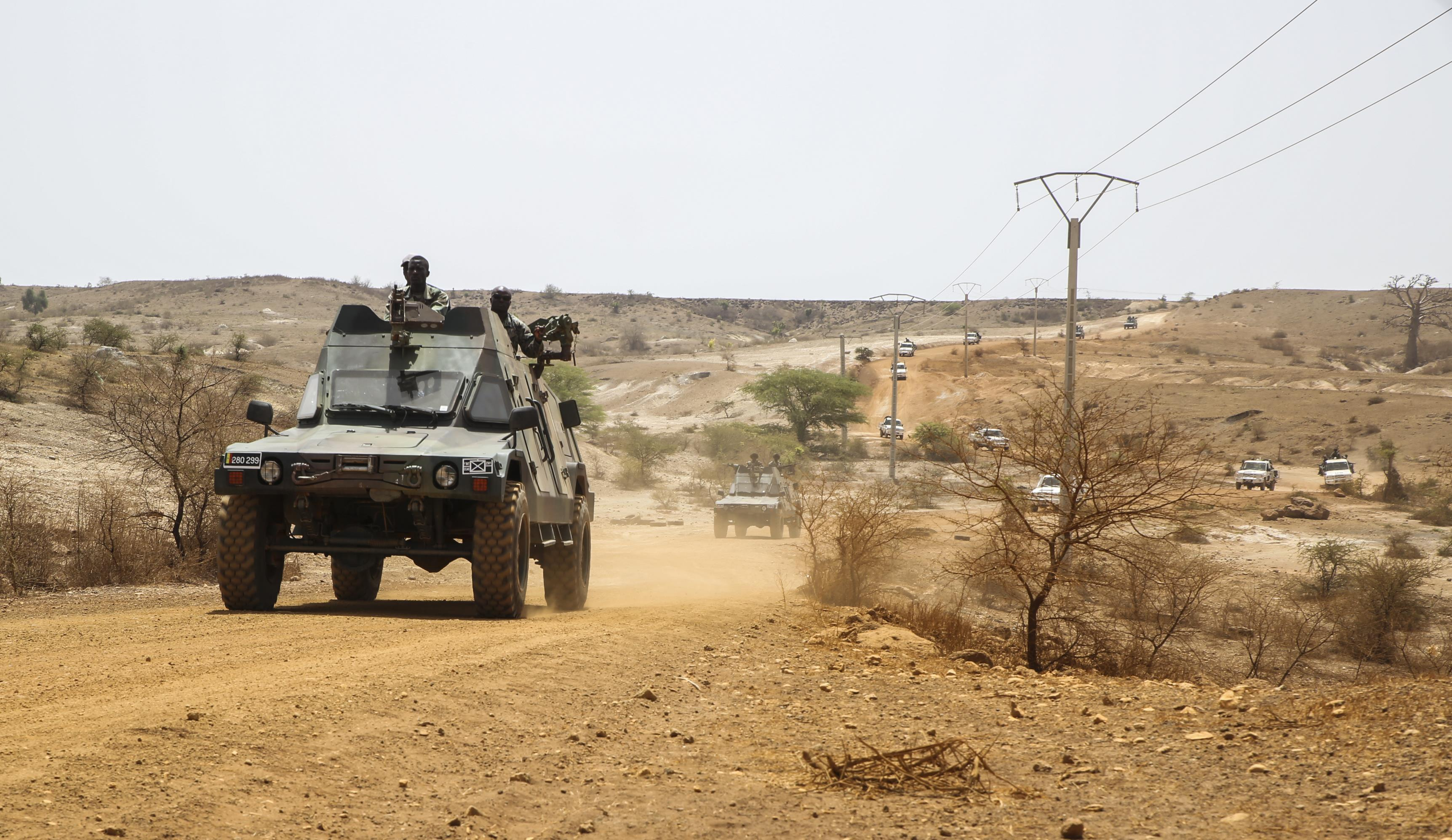 Armored vehicles with Senegal’s 5th Contingent in Mali and U.S. Marines with Special Purpose Marine Air-Ground Task Force – Crisis Response – Africa conduct convoy operations during a peacekeeping operations training mission at Thies, Senegal, June 6, 2017. Marines and Sailors with SPMAGTF-CR-AF served as instructors and designed the training to enhance the soldiers’ abilities to successfully deploy in support of United Nations peacekeeping missions in the continent. (U.S. Marine Corps photo by Sgt. Samuel Guerra/Released)